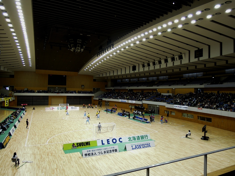 Main arena of Hokkaido Prefectural Sports Center (F. League match: Espolada Hokkaido vs. Pescadola Machida)